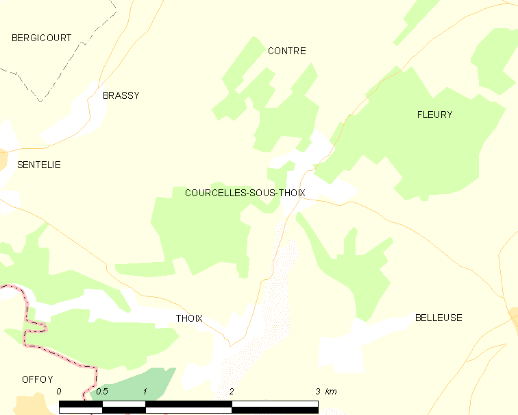 Map of French municipality Courcelles-sous-Thoix